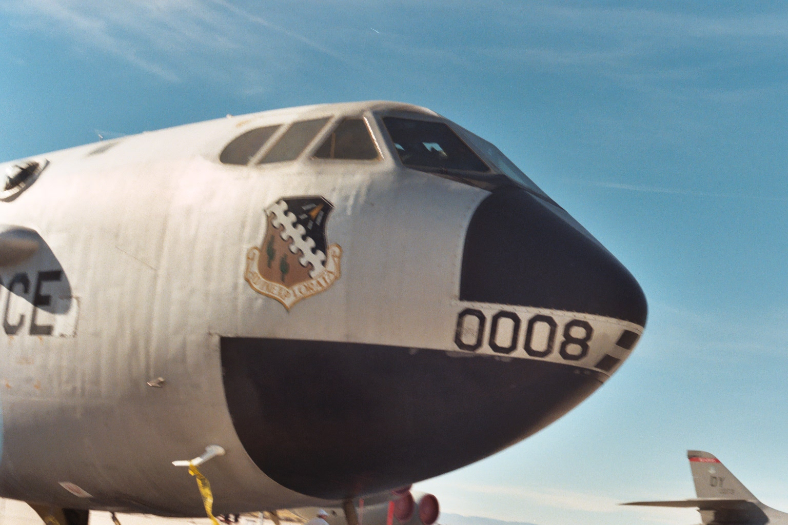 Personal photograph taken by LanceBarber at Edwards AFB Summer Airshow, 2003. No copyrights. Free to the public, release to public domain, and fair use.